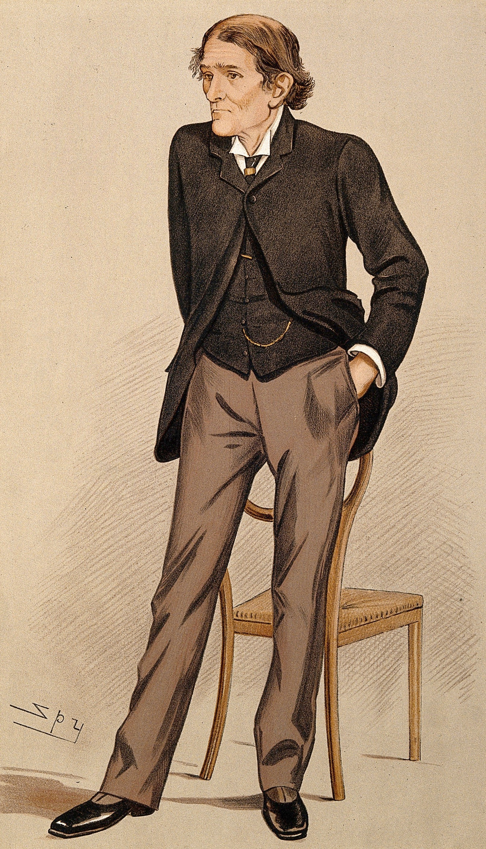 Caricature of Sir John Scott Burdon-Sanderson. Caption read "Oxford physiology".